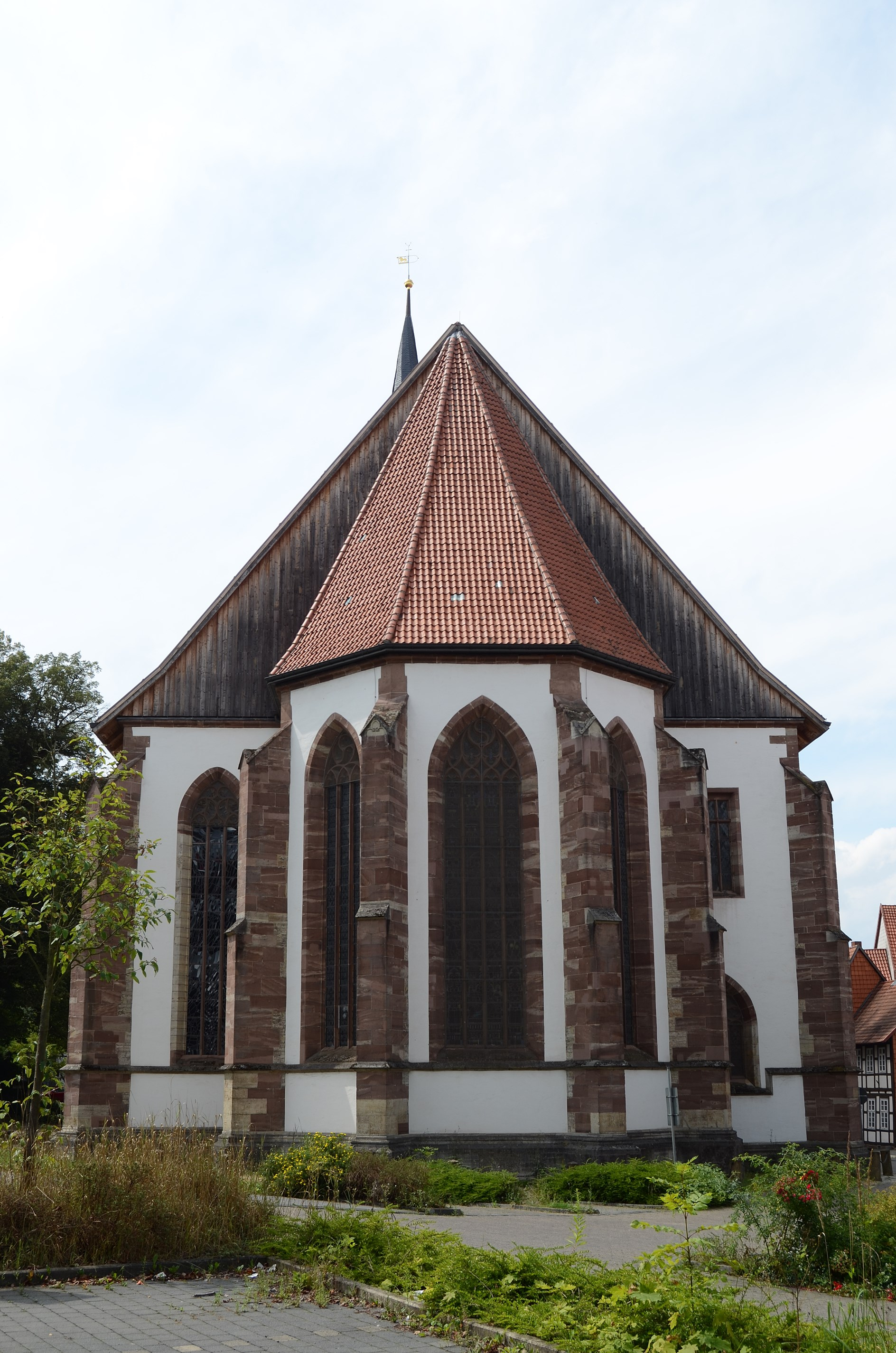 This is a photograph of an architectural monument.It is on the list of cultural monuments of Northeim This photograph was taken with a Nikon D7000 Northeim, Evangelisch-lutherische Kirche St. Sixti